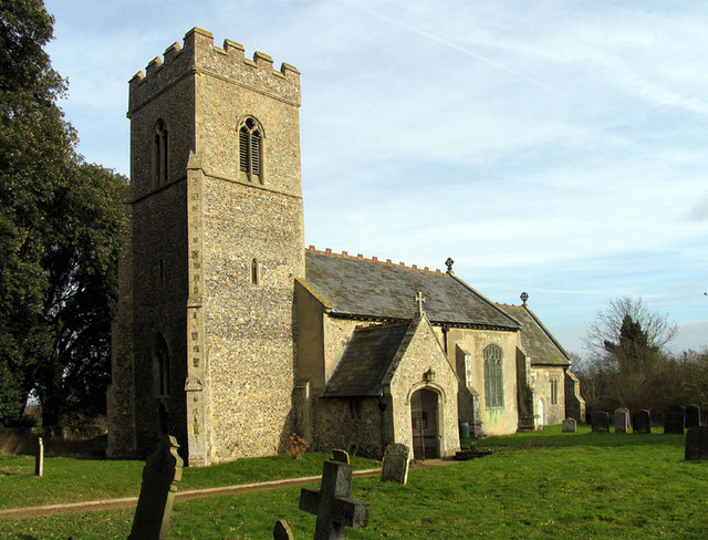 All Saint's Parish church,Bale, Norfolk